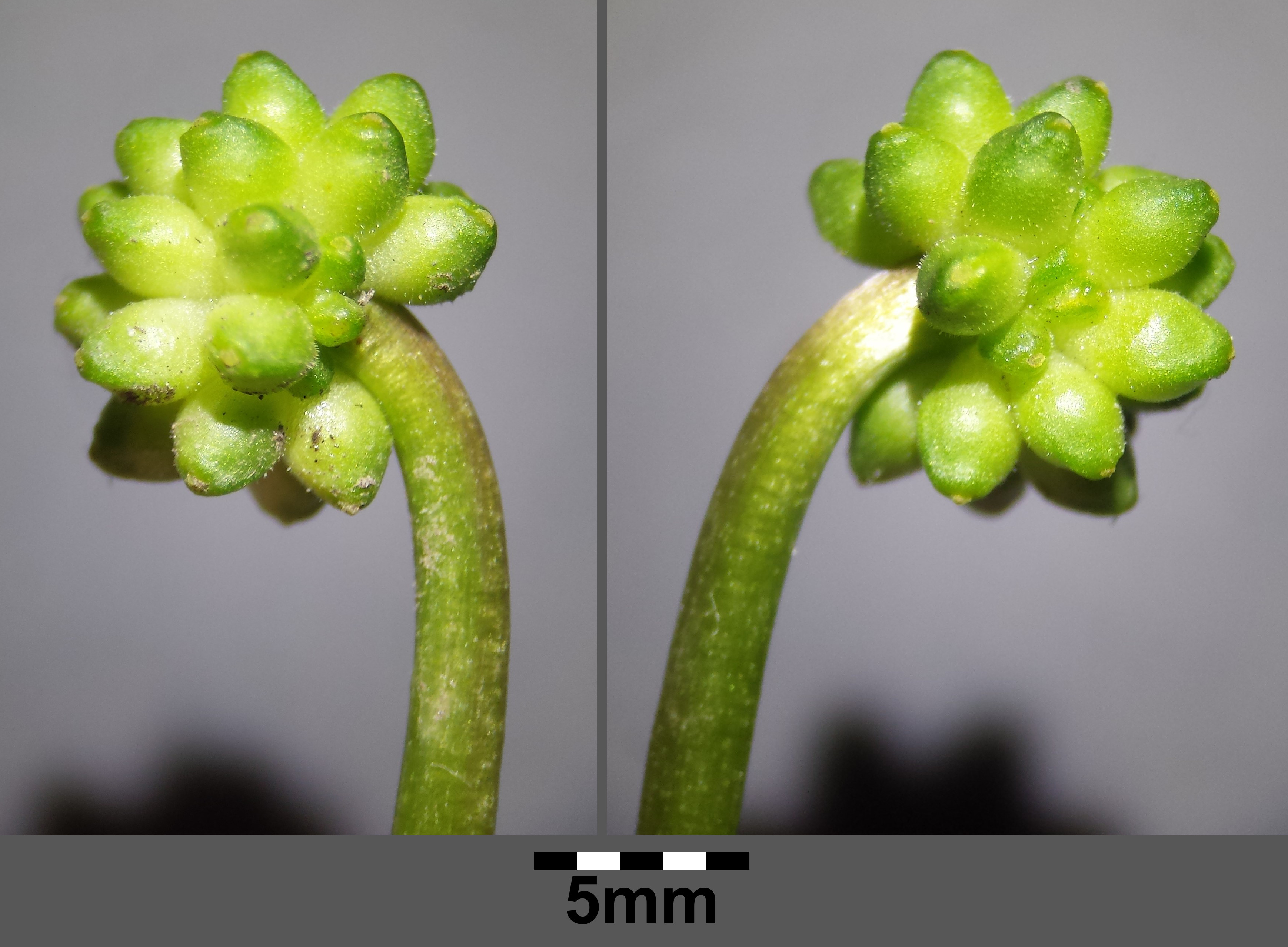 Fruit Taxonym: Ficaria calthifolia ss Fischer et al. EfÖLS 2008 ISBN 978-3-85474-187-9 Location: Wasserpark, Vienna-Floridsdorf - ca. 160 m a.s.l. Habitat: ruderal meadows